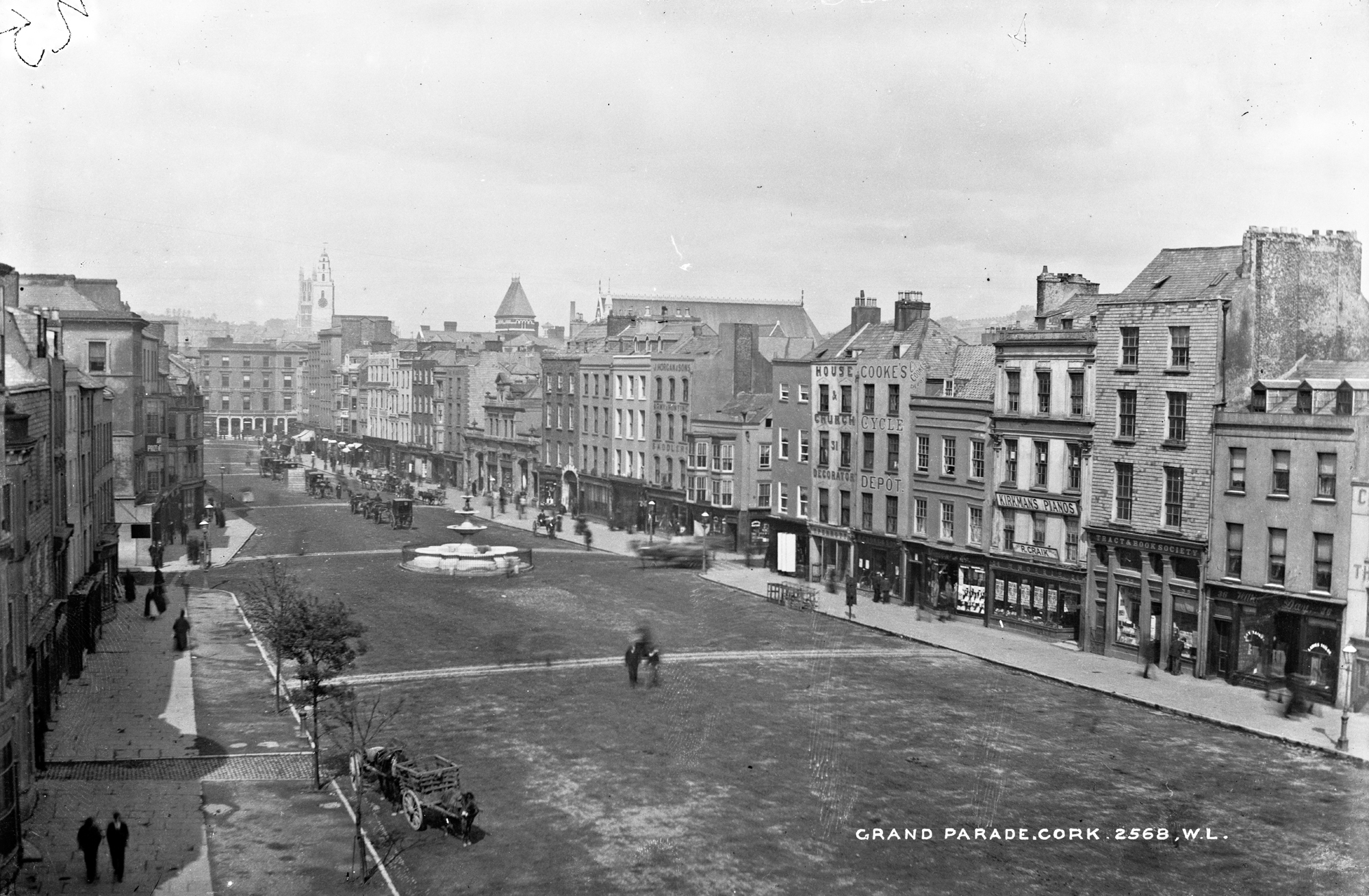 Grand Parade as I've never seen it, half empty, no buses, no crowds and with the fountain in a strange place! Cork has proven to be a happy hunting ground for us in the past so for this weeks final contribution it will be interesting to see if we are as lucky once more? Not a dog in sight as I see it though it was a long exposure as demonstrated by the ghosts so a fast dog may have passed unnoticed! Photographer: Robert French Collection: Lawrence Photograph Collection Date:between ca. 1865-1914 NLI Ref: L_CAB_02568 You can also view this image, and many thousands of others, on the NLI’s catalogue at